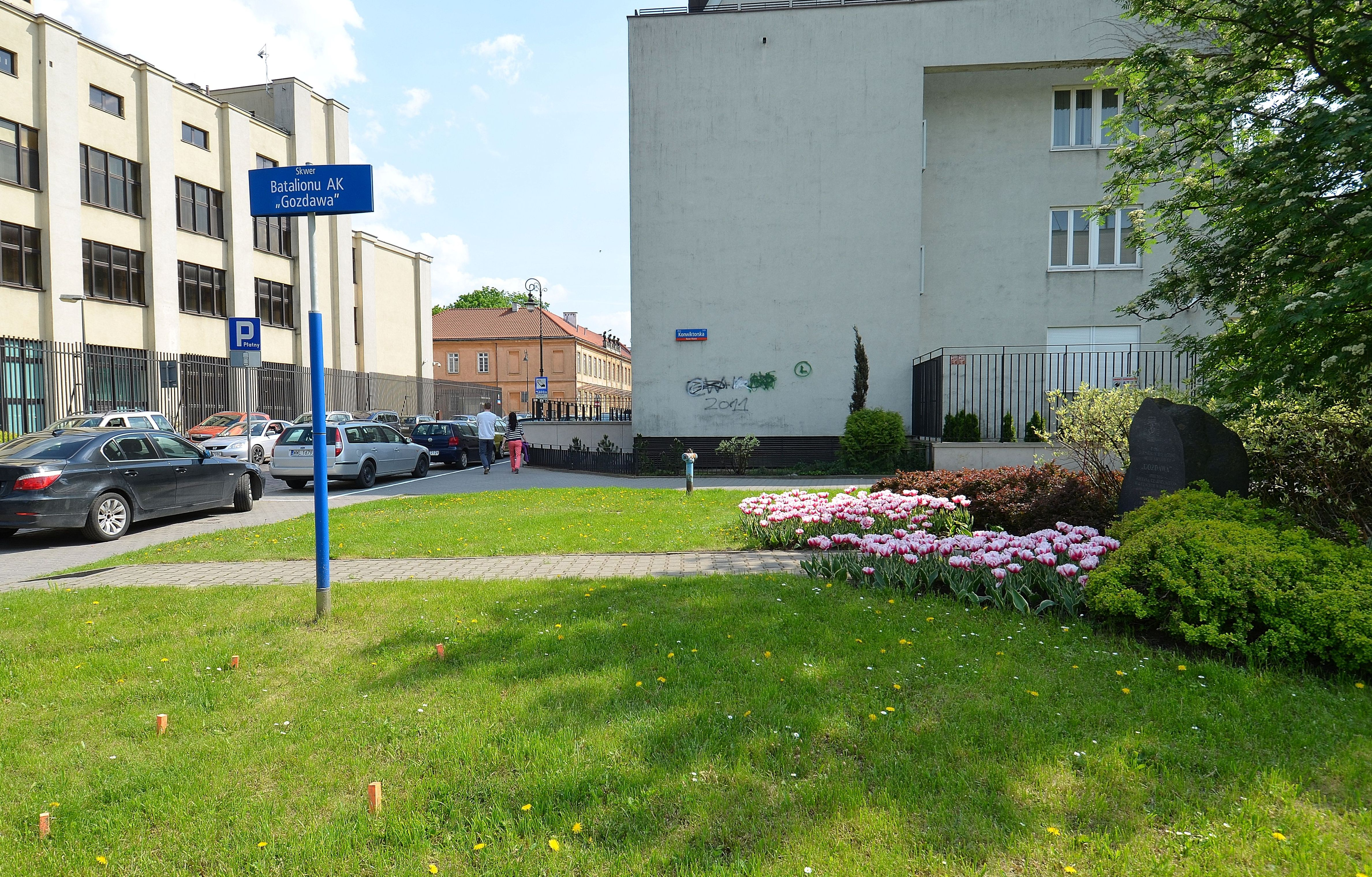 Battalion Gozdawa Square in Warsaw